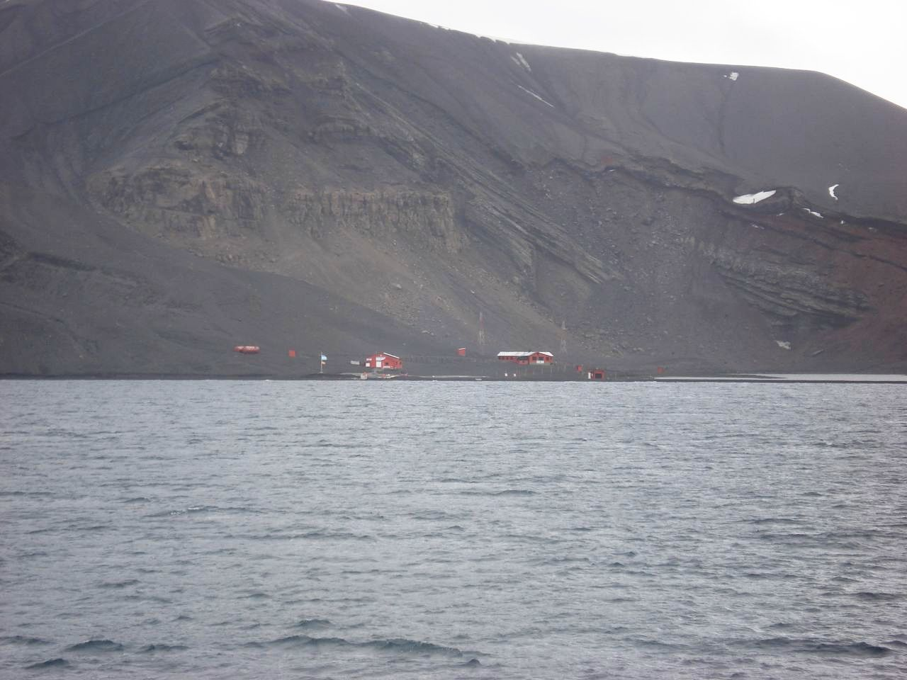 Argentinian Decepción Station in Decepción Island in Antarctica.